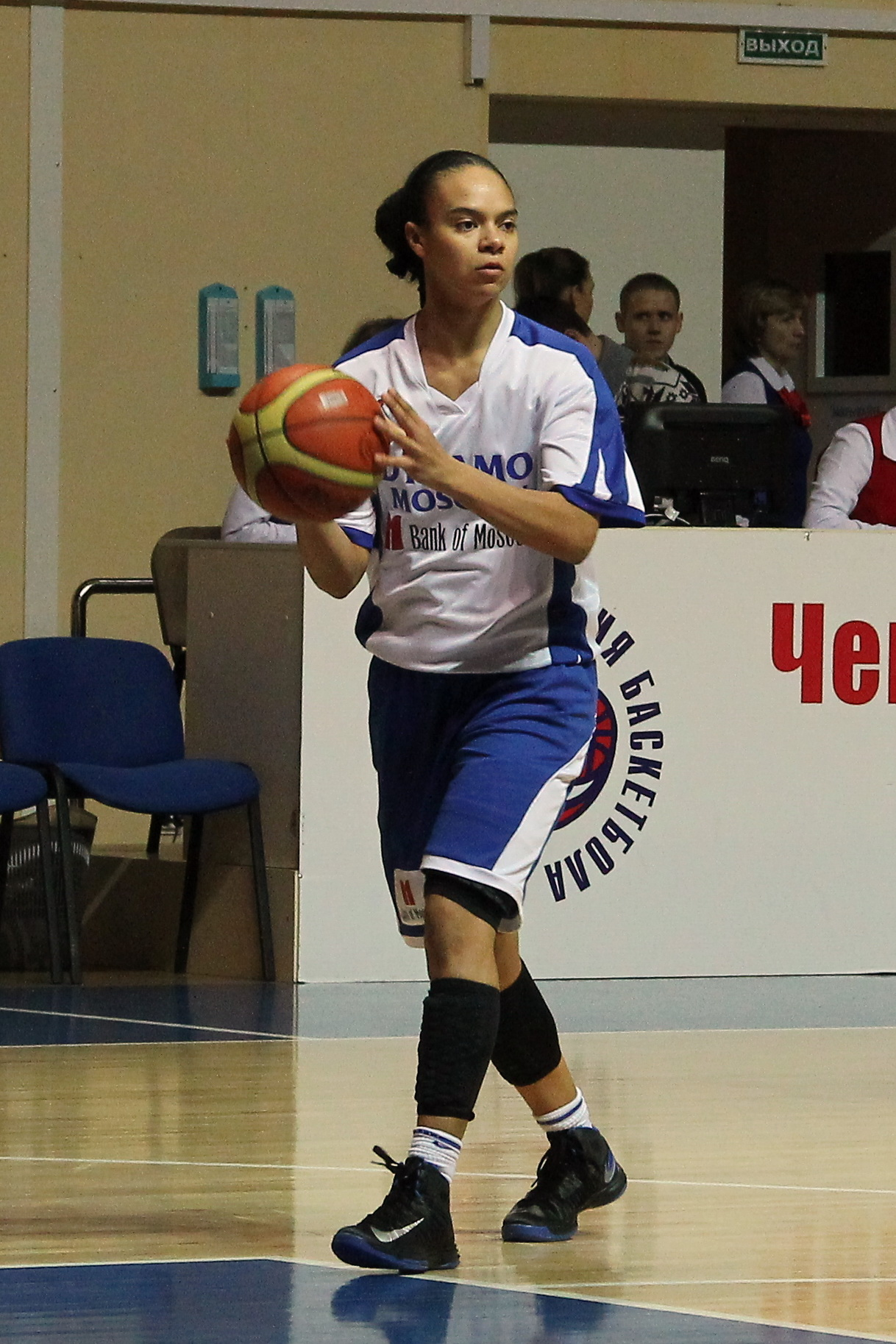 Russia, Vologda, Kristi Renee Toliver in game «Vologda-Chevakata» vs «Dinamo» (Moscow)